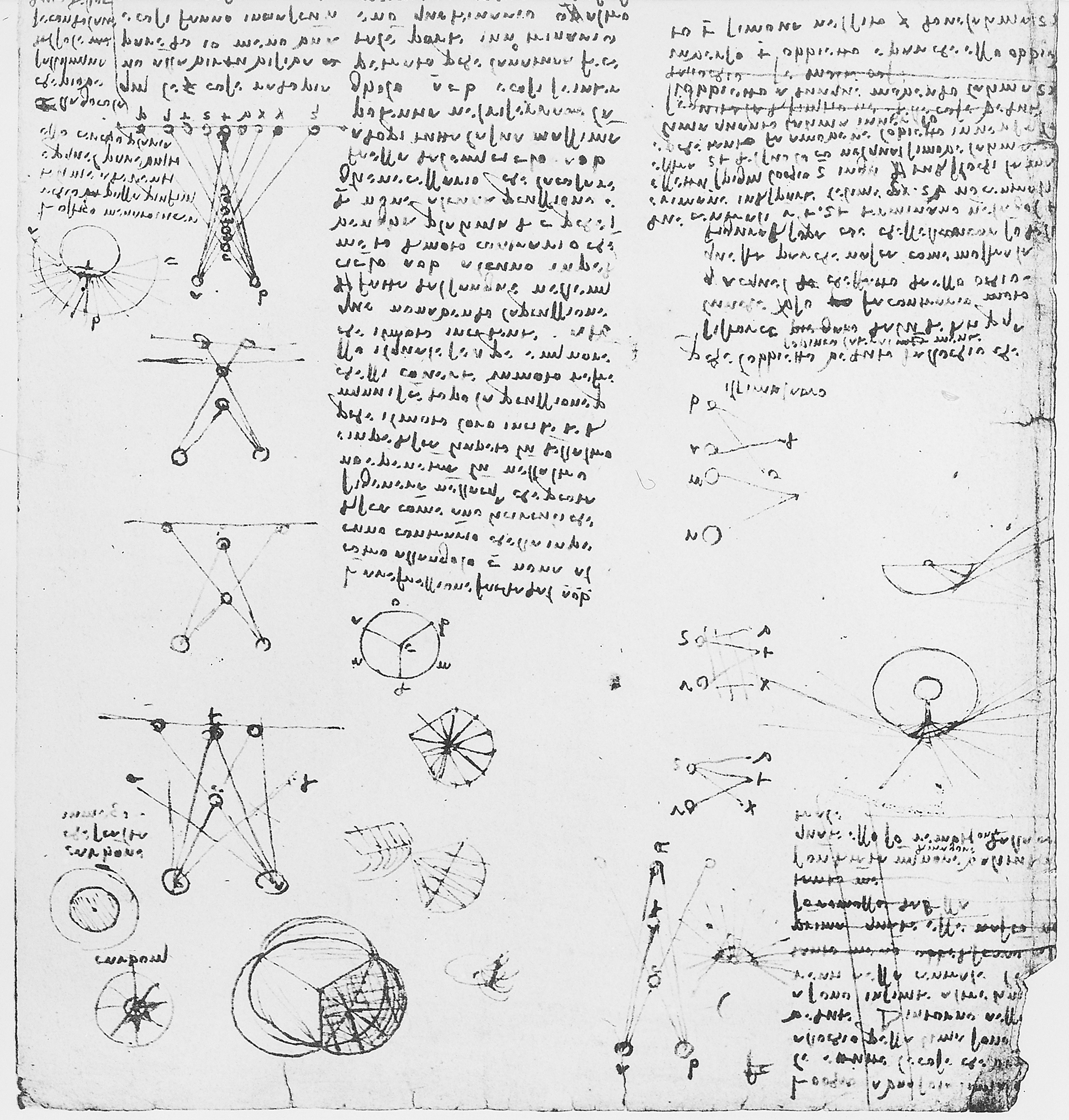 On the eye and vision. Wellcome Images Keywords: optics and opthalmics